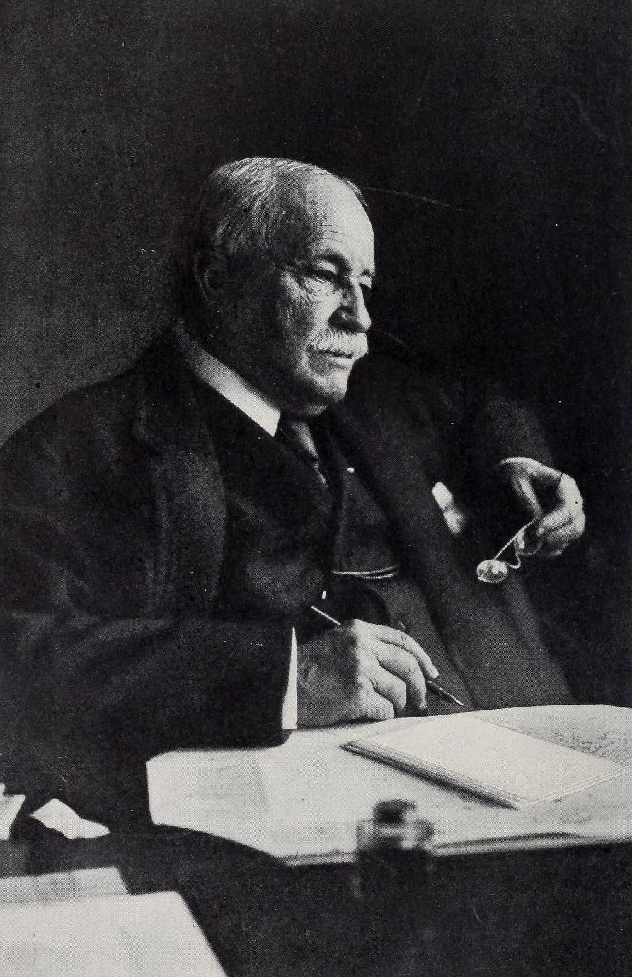 Portrait of William Dean Howells